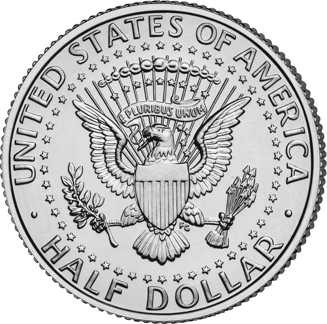 Removed background, cropped, and converted to PNG with Macromedia Fireworks. This image depicts a unit of currency issued by the United States of America. If Fraudulent use of this image is punishable under applicable counterfeiting laws. As listed by the United States Secret Service at money illustrations, the Counterfeit Detection Act of 1992, Public Law 102-550, in Section 411 of Title 31 of the Code of Federal Regulations (31 CFR 411), permits color illustrations of U.S. currency provided:1. The illustration is of a size less than three-fourths or more than one and one-half, in linear dimension, of each part of the item illustrated;2. The illustration is one-sided; and3. All negatives, plates, positives, digitized storage medium, graphic files, magnetic medium, optical storage devices, and any other thing used in the making of the illustration that contain an image of the illustration or any part thereof are destroyed and/or deleted or erased after their final use. Certain coins contain copyrights licensed to the U.S. Mint and owned by third parties or assigned to and owned by the U.S. Mint [1]. For the United States Mint circulating coin design use policy, see [2]; for the policy on the 50 State Quarters, see [3]. Also: COM:ART #Photograph of an old coin found on the Internet